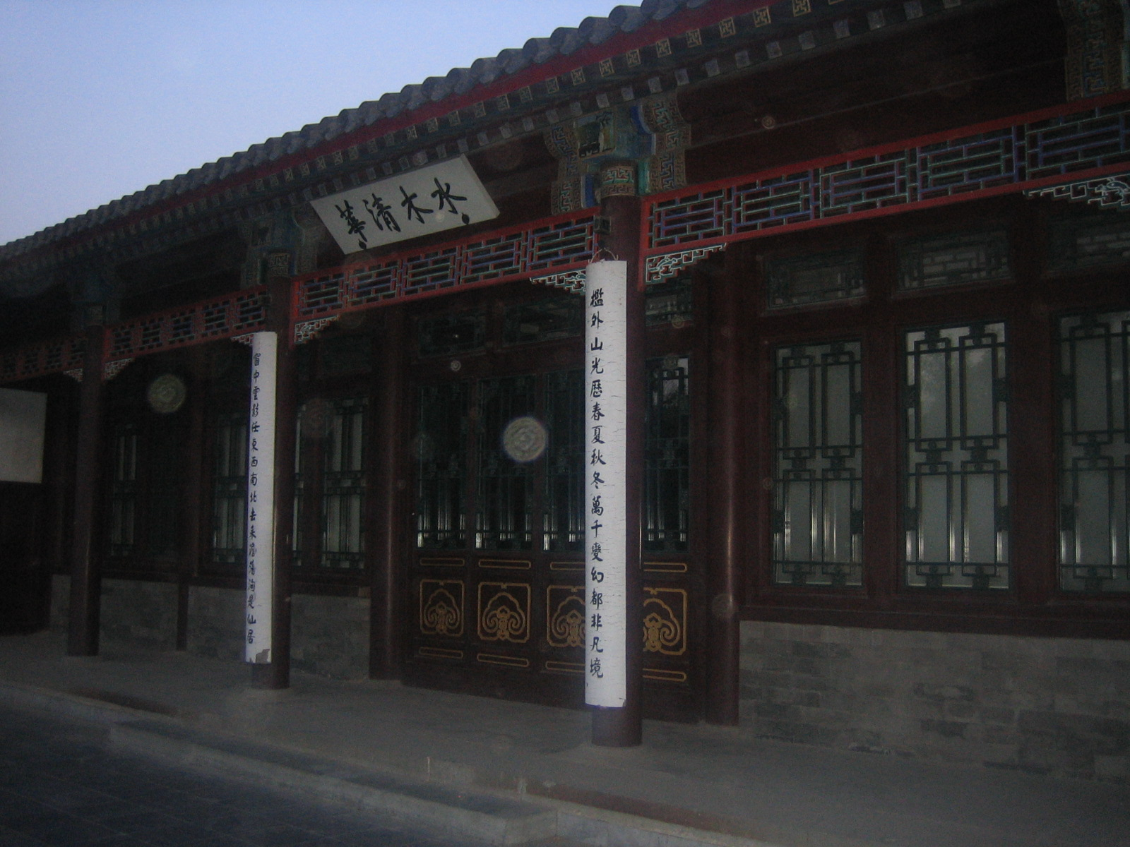 The Tsinghua University campus in Beijing